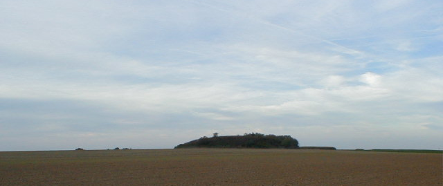 grave (tumulus) of Waasmont.